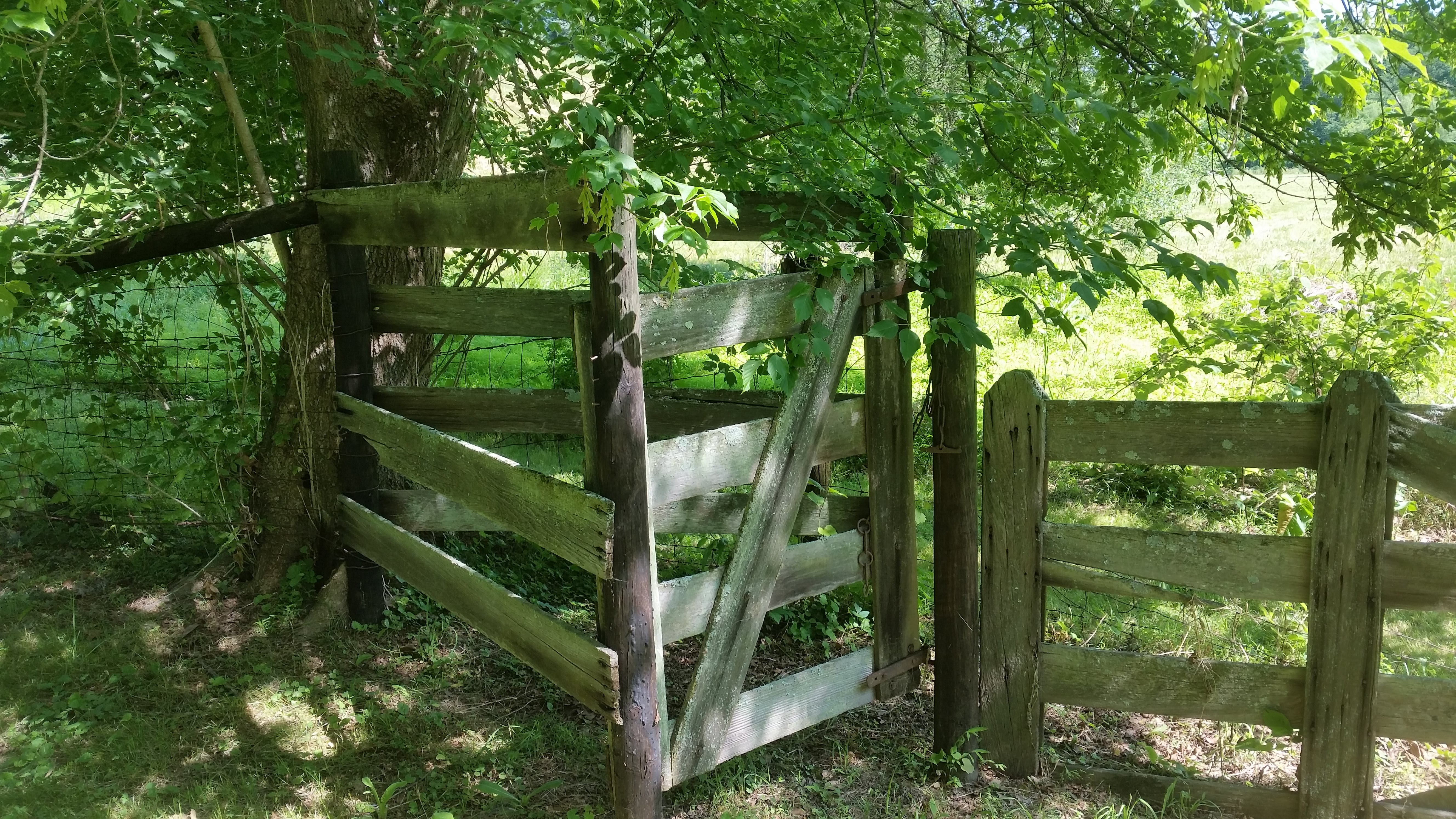 Kissing gate along a fence